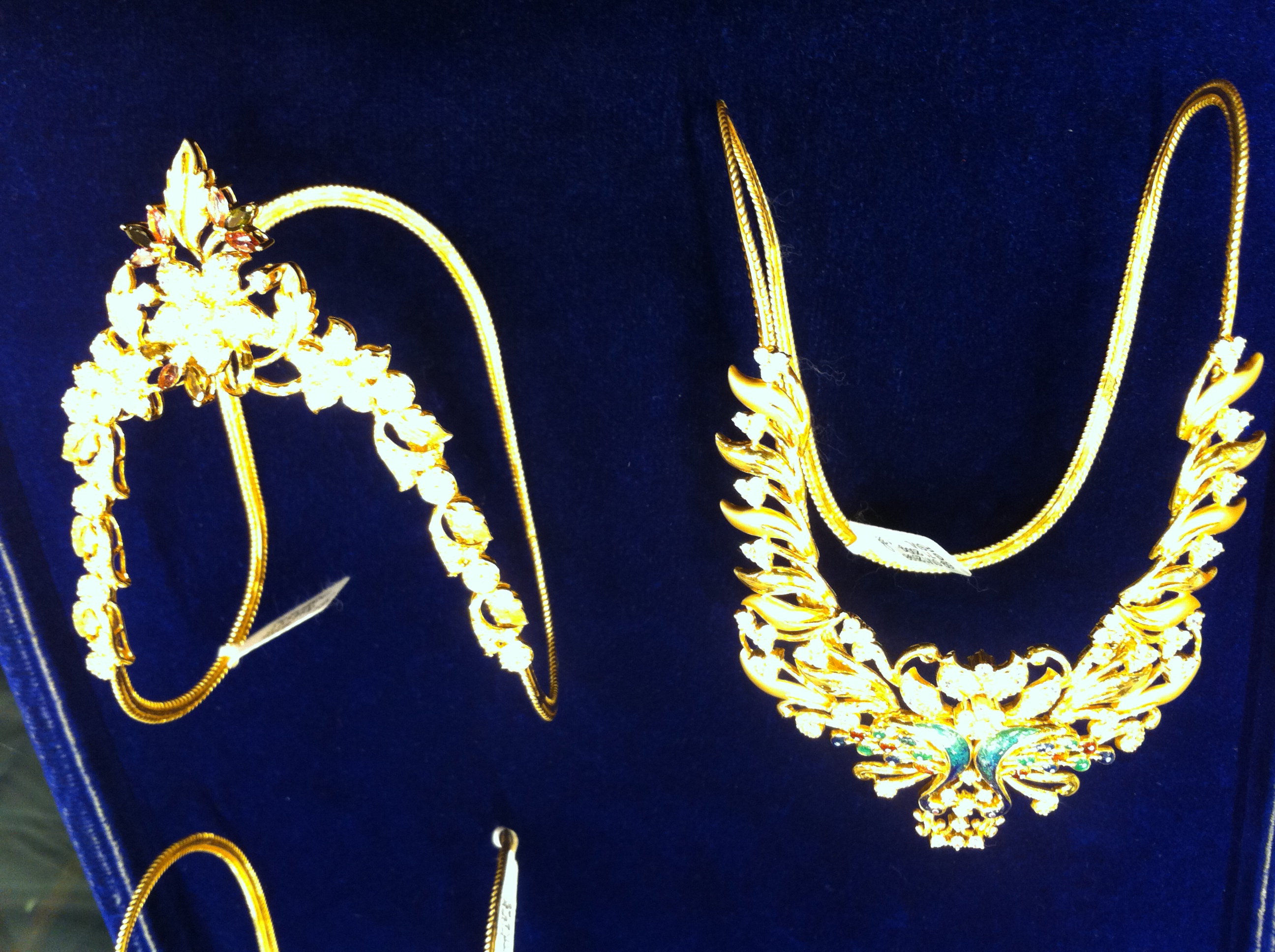 Jewellery of Tamil Nadu